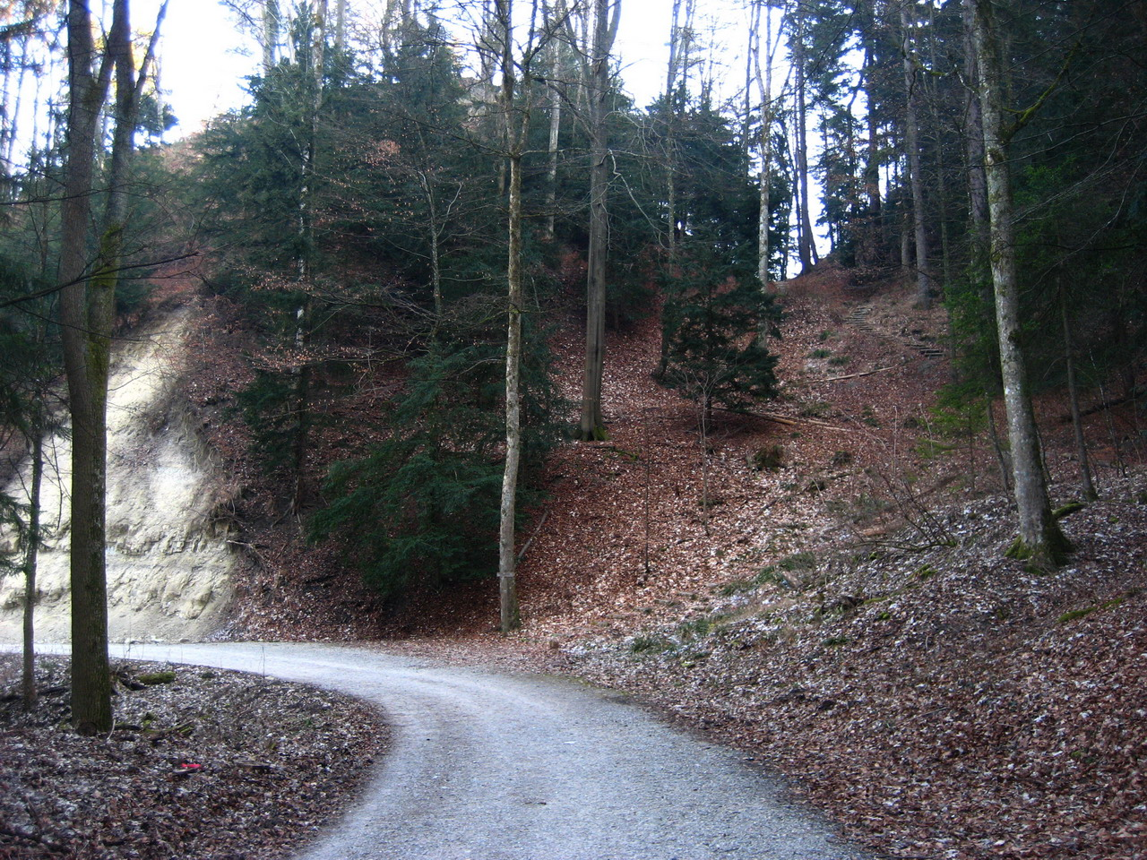 Zürich - Uetliberg : Friesenberg castle, moat at Goldbrunegg.